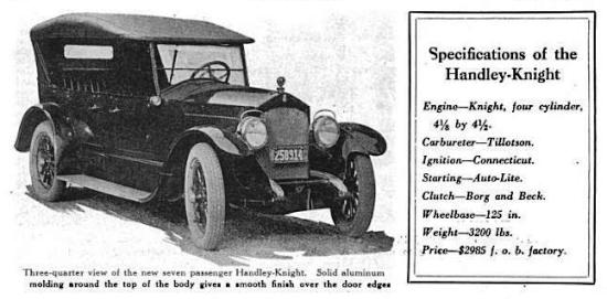 1920 ad for 1921 Handley-Knight Model A Touring with specifications. This car had a 54 hp four cylinder sleeve valve engine.